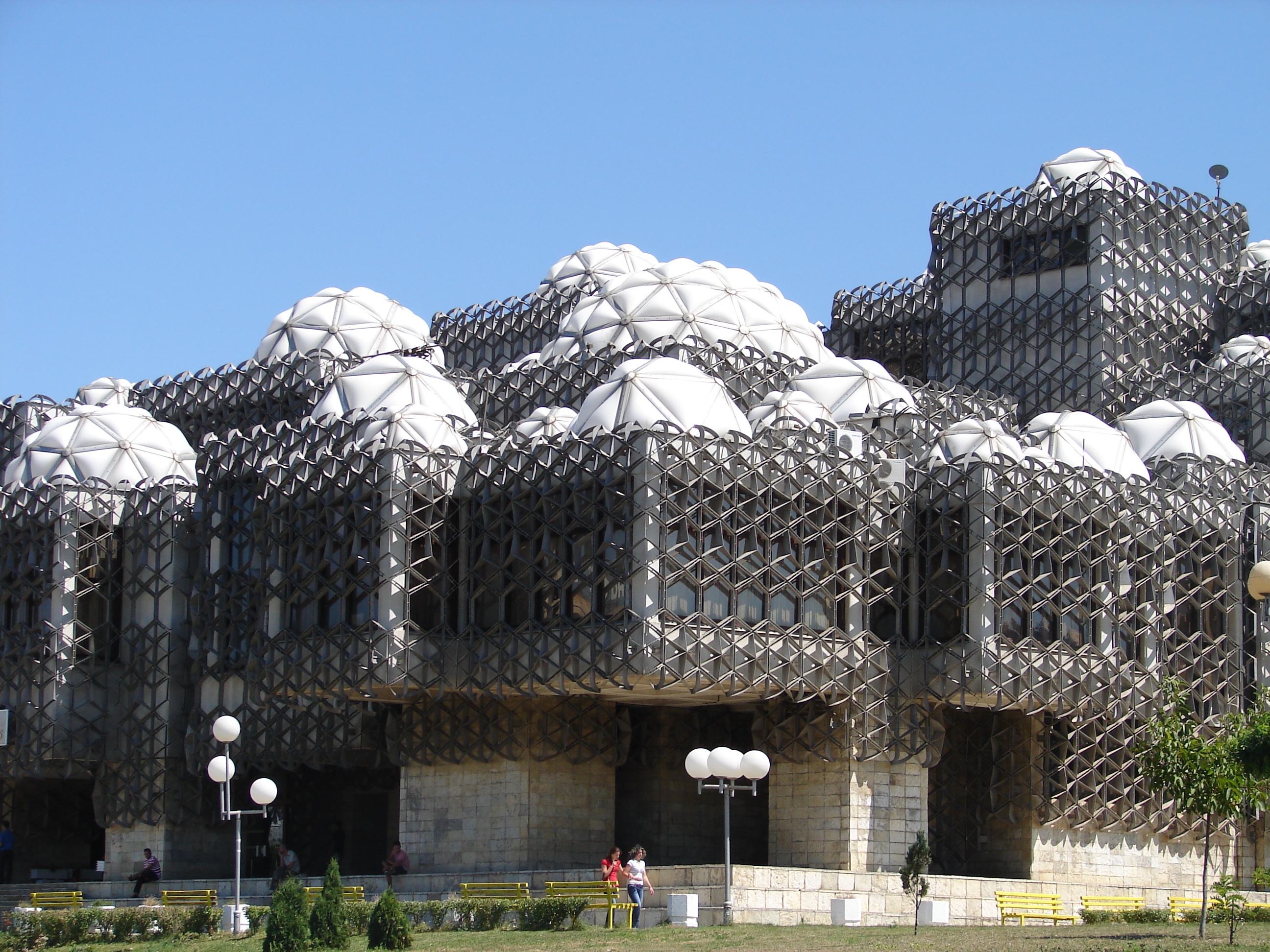 National and University Library of Kosovo in Pristina